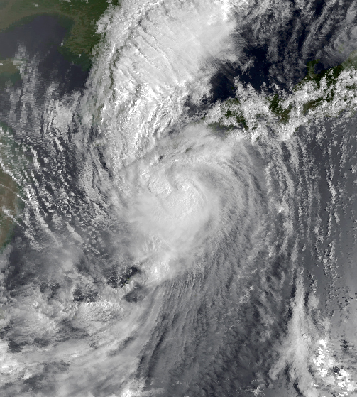 Typhoon Orchid near landfall on Kyushu, Japan on September 10, 1980.